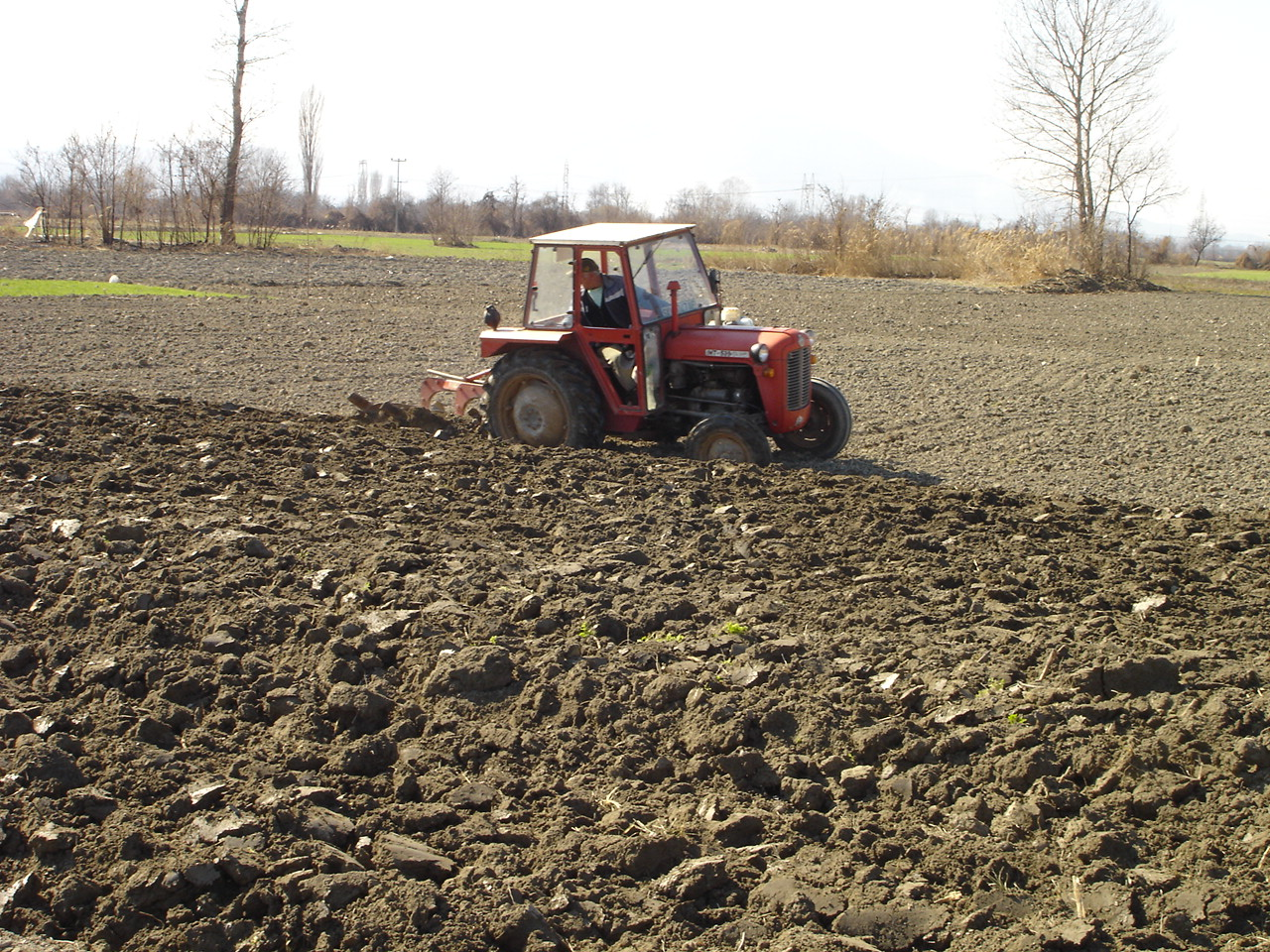 Tractor plowing in Macedonia